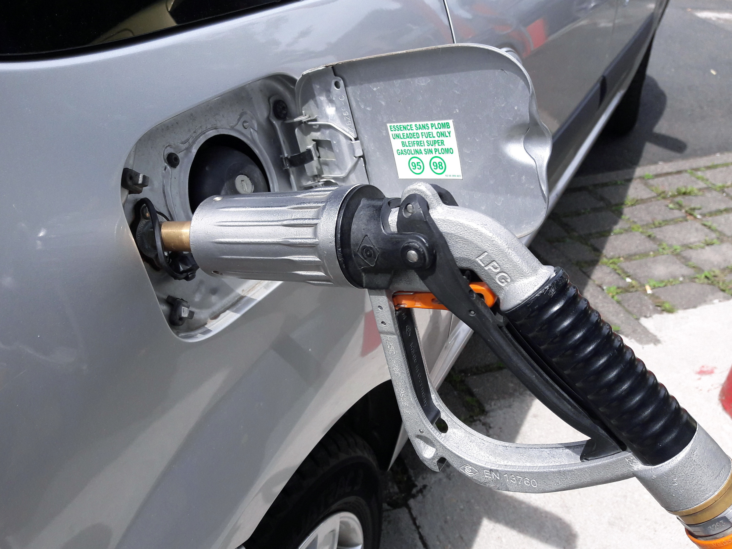 Fuel filler of Dacia Logan MCV with LPG nozzle attached